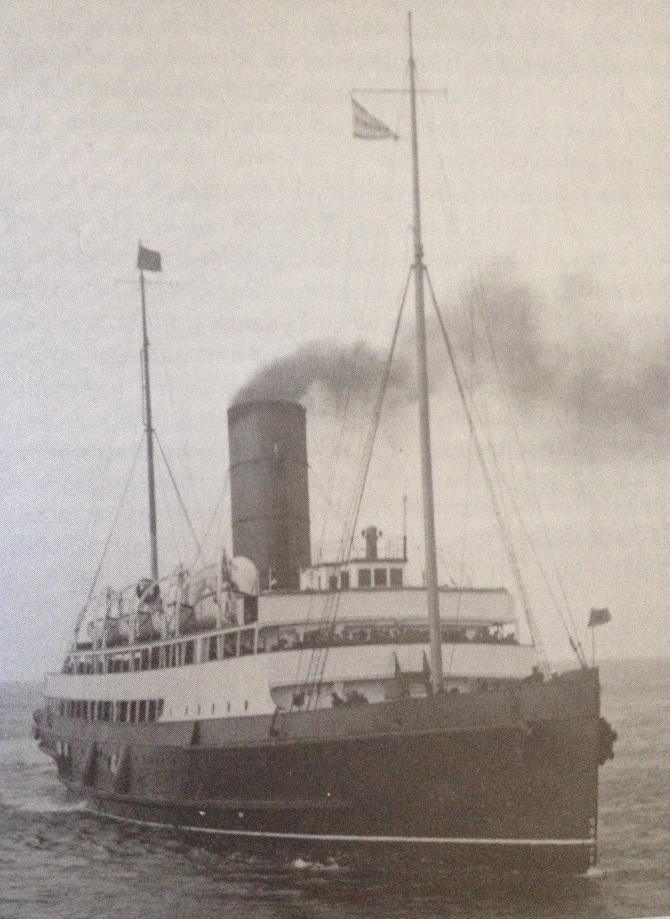 Royal Mail Ship King Orry.